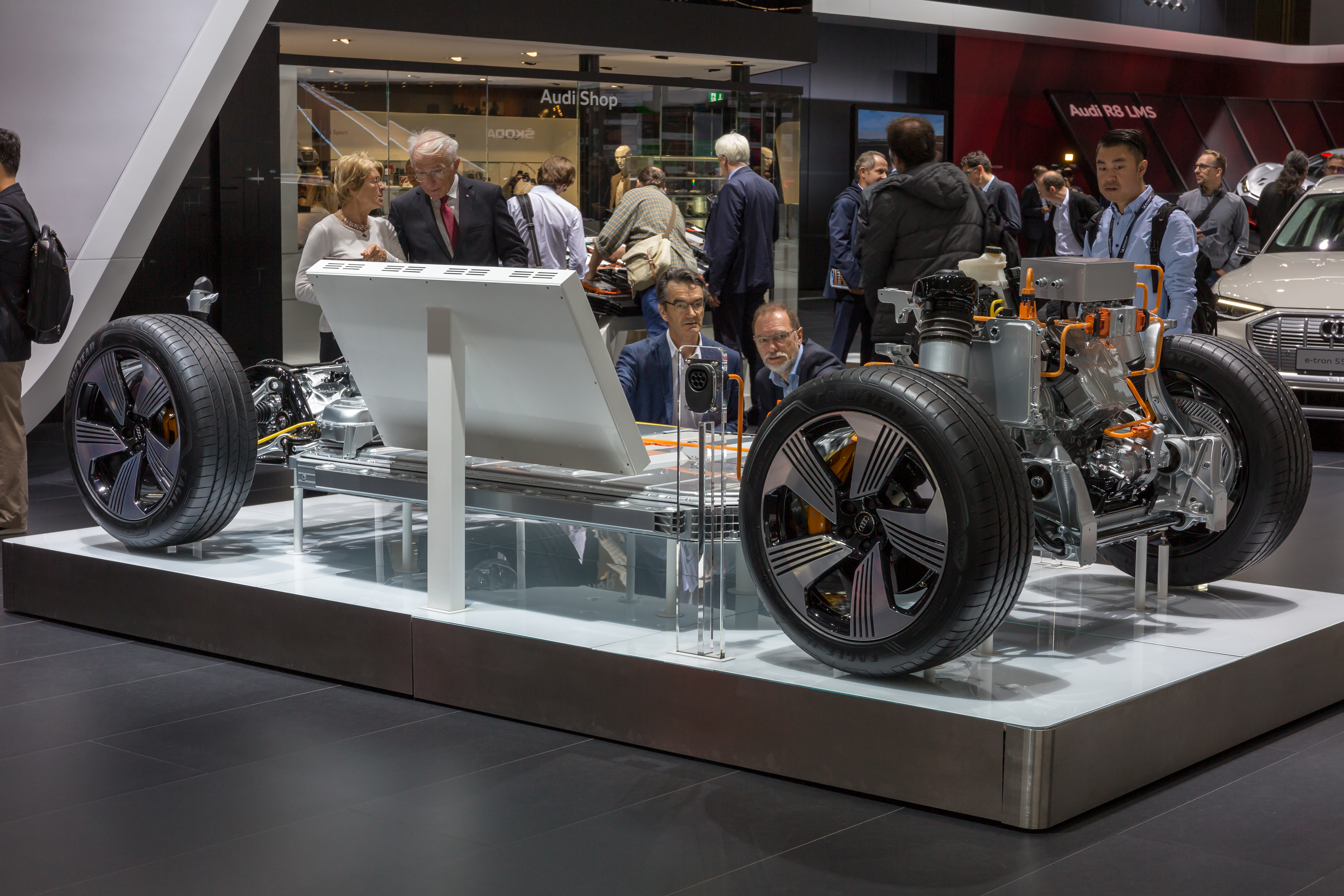 Traction system of an Audi e-tron 55 quattro, Mondial Paris Motor Show 2018